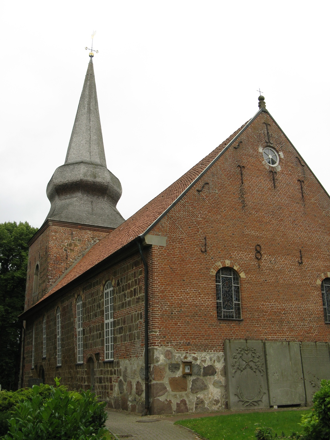 The "St. Peter und Paul-Kirche" in Cappel, Lower Saxony, Germany